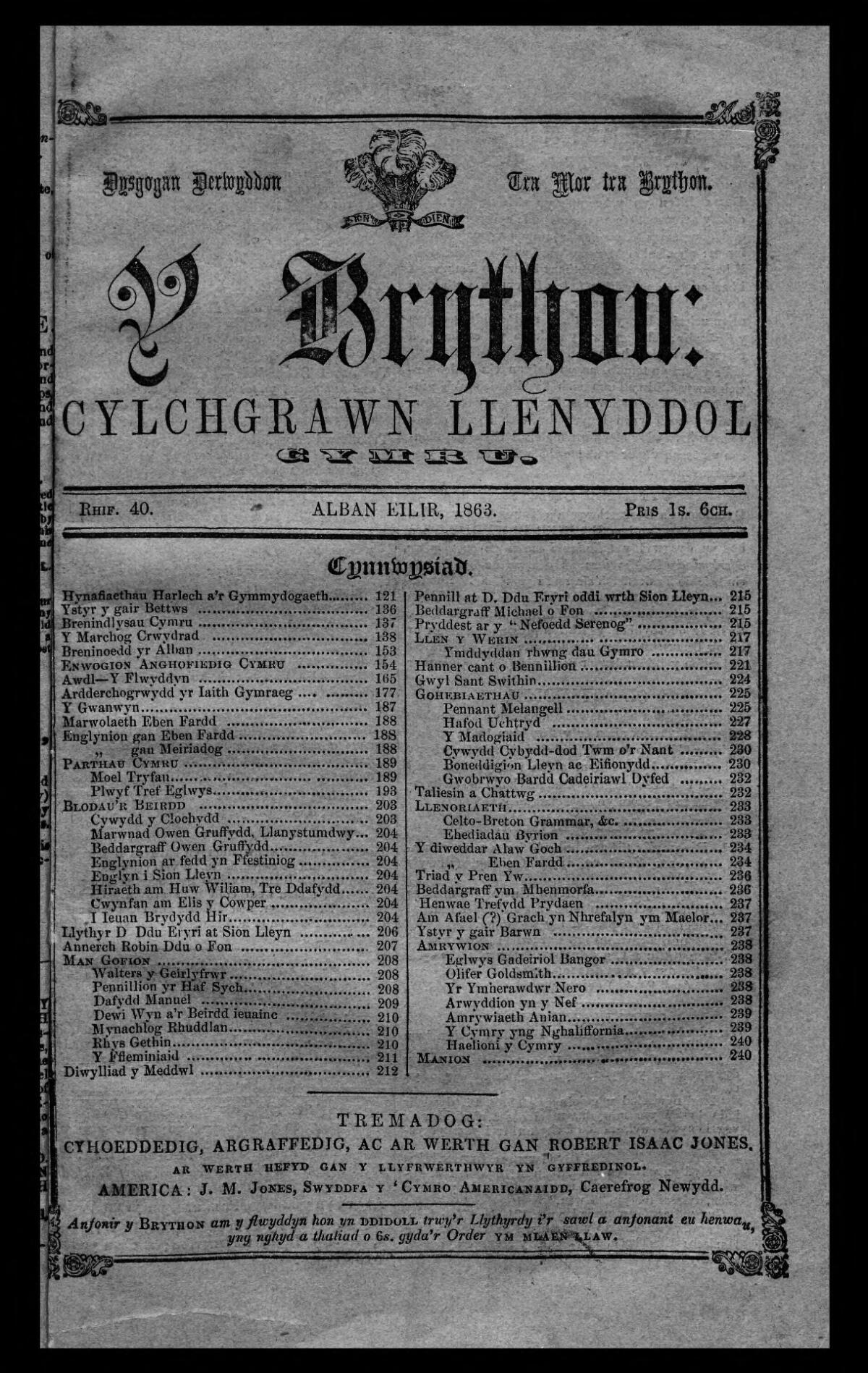 A monthly non-denominational Welsh language periodical that published articles on literature, antiquities and folklore, The periodical was edited by the pharmacist, writer and printer, Robert Isaac Jones (Alltud Eifion, 1815-1905), between June and October 1858 and 1860-1863, with the lexicographer Daniel Silvan Evans (1818-1903), taking over as editor during his absence.